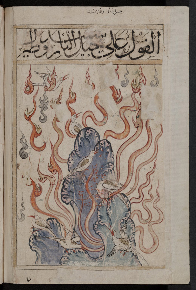 The burning rock and the phoenix. Illustration of a tale. Page from a manuscript known as Kitab al-bulhan or "Book of Wonders" held at the Bodelian Library. Shelfmark: MS. Bodl. Or. 133